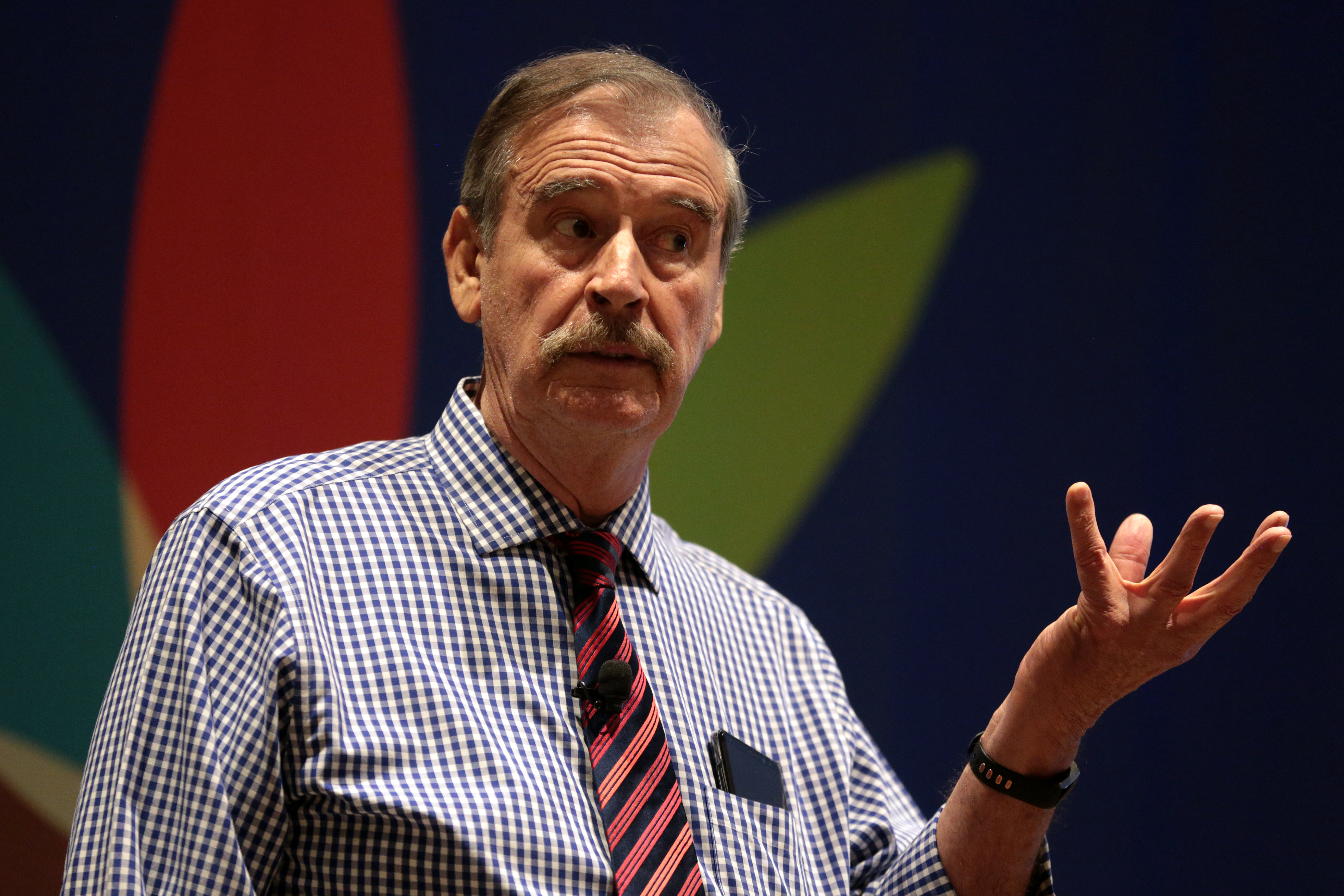 Former President of Mexico Vicente Fox speaking with attendees at the 3rd Annual Southwest Cannabis Conference & Expo at the Phoenix Convention Center in Phoenix, Arizona.